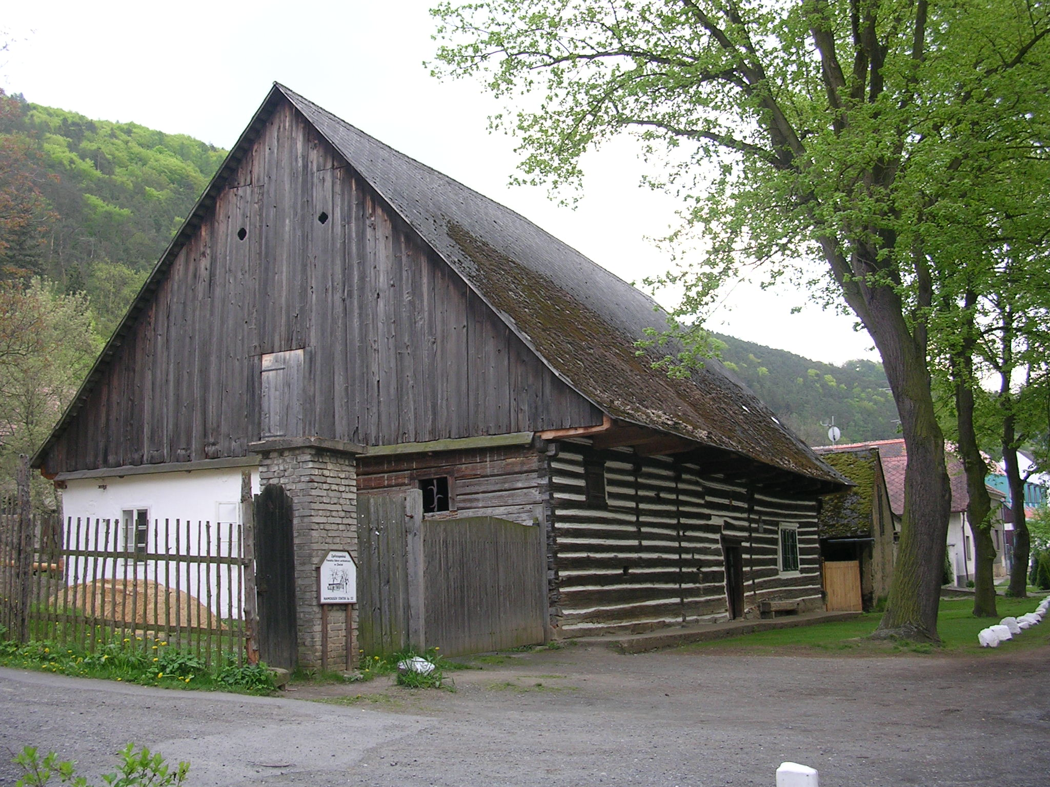 Zbečno, the Czech Republic.